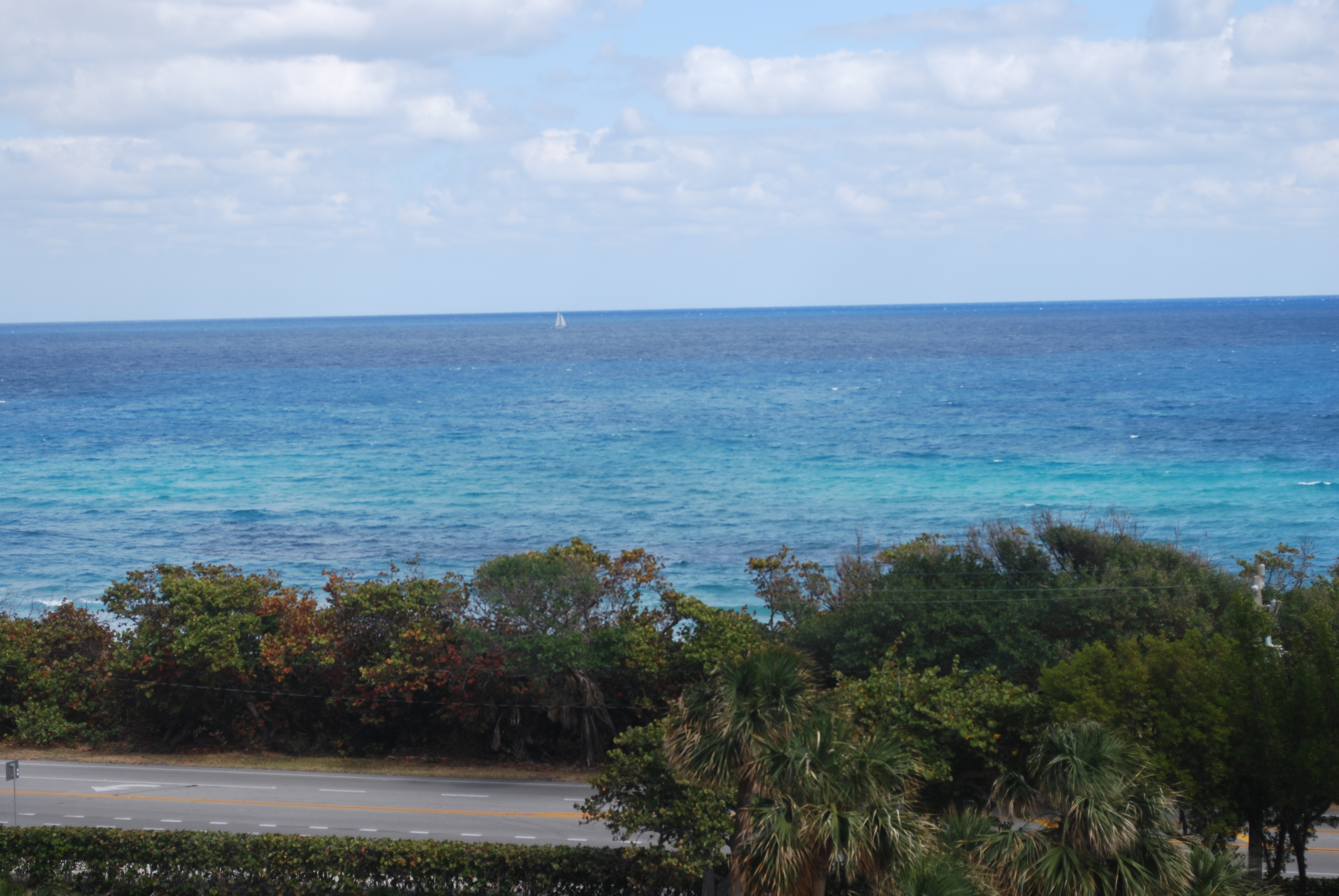 Florida State Road A1A in Boca Raton, Florida